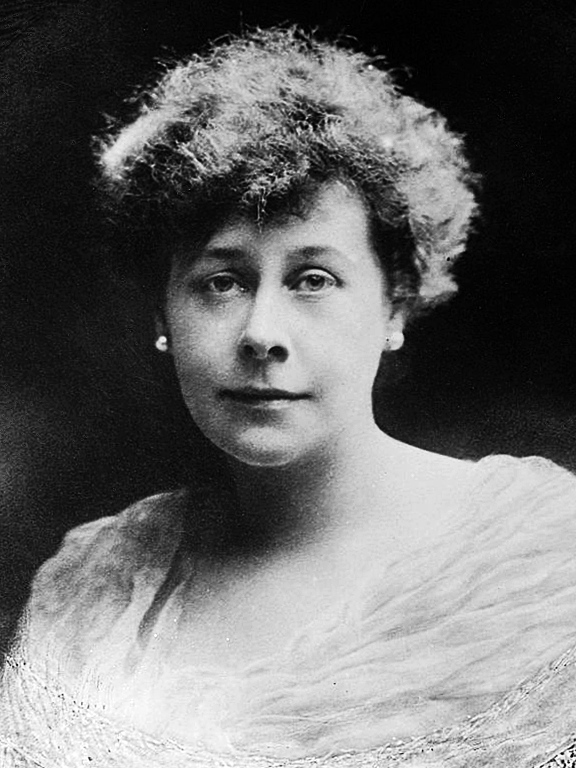 Lilly Rose Cabrera Marquesa del Ter y Condesa de Morella (aka Lilly Rose Schenrich)